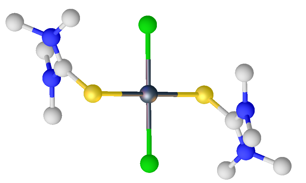 structure of TeCl2(SC(NMe2)2)2